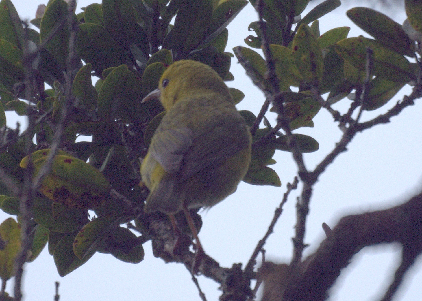 Female ʻAnianiau